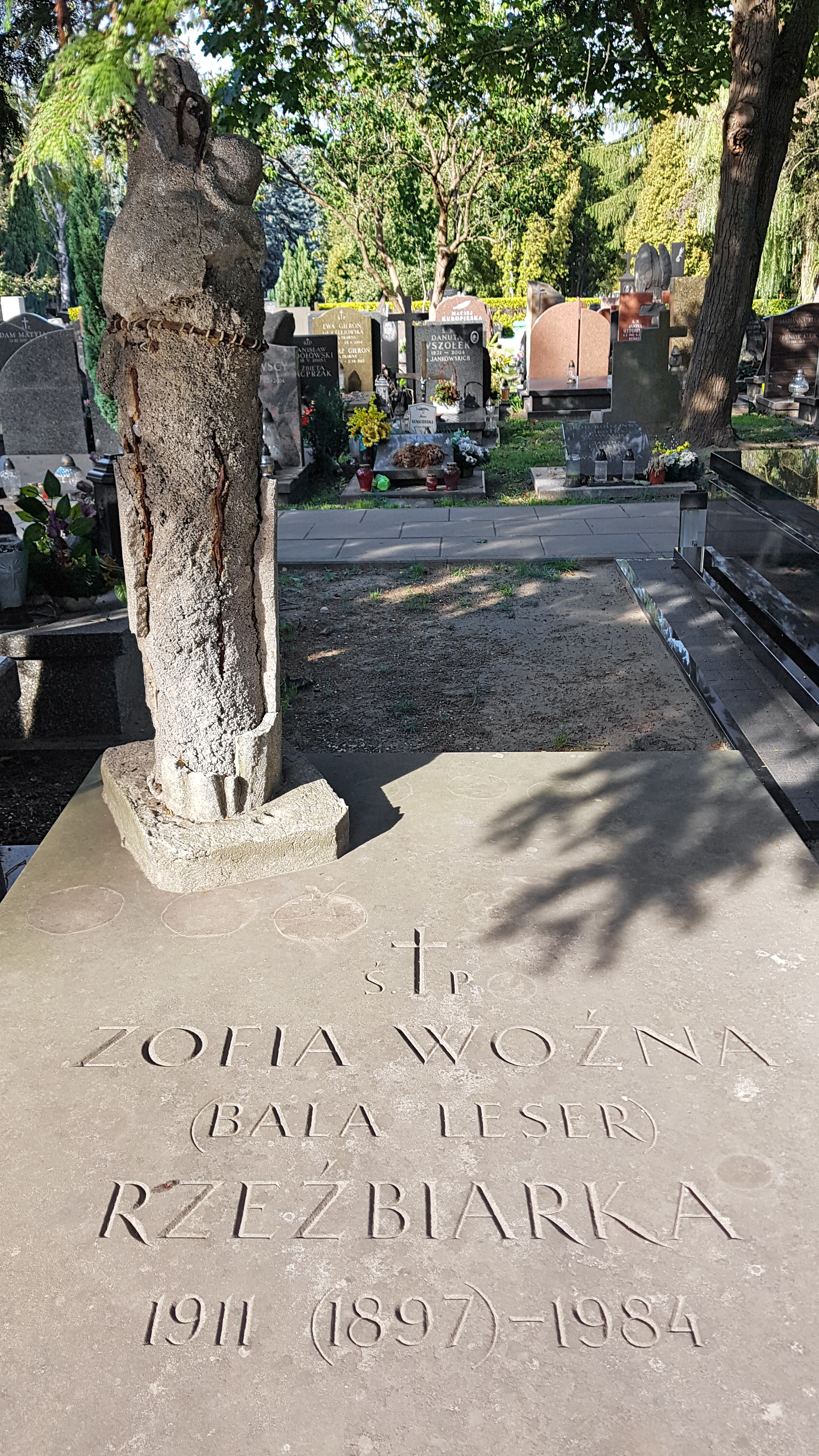 The grave of Zofia Woźna at the Military Cemetery in Powązki.